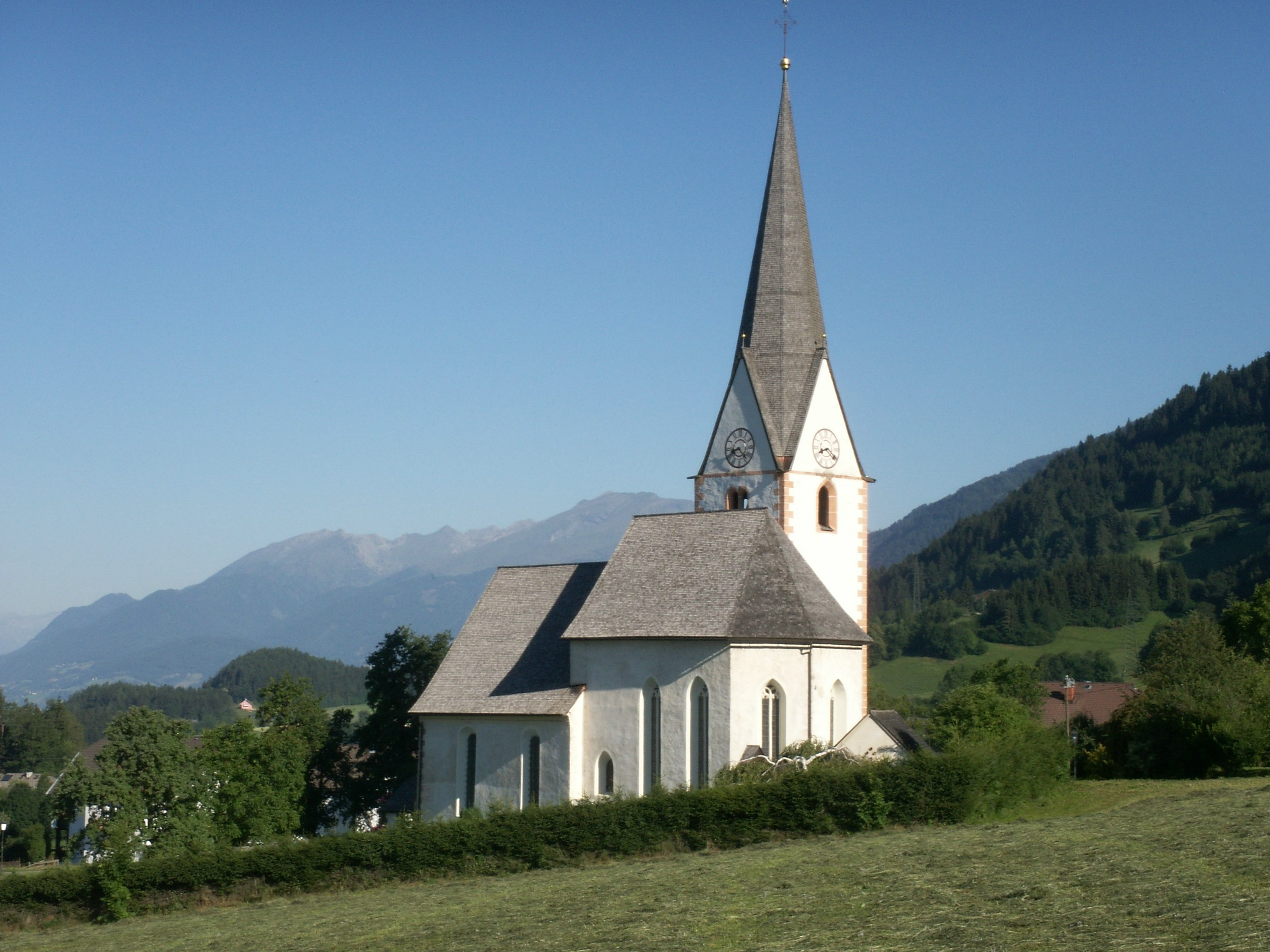 Church in Matzelsdorf in Carinthia / Austria / European Union. Matzelsdorf is a village in the community of Millstatt. In the background the first mountains of the Hohe Tauern. Search items: haymaking, shingle roofs, gothic church tower with clock.